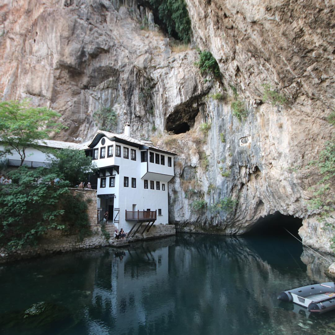 Tekija. The dervish house at the Buna spring. #bosnia #bosna #waterscape